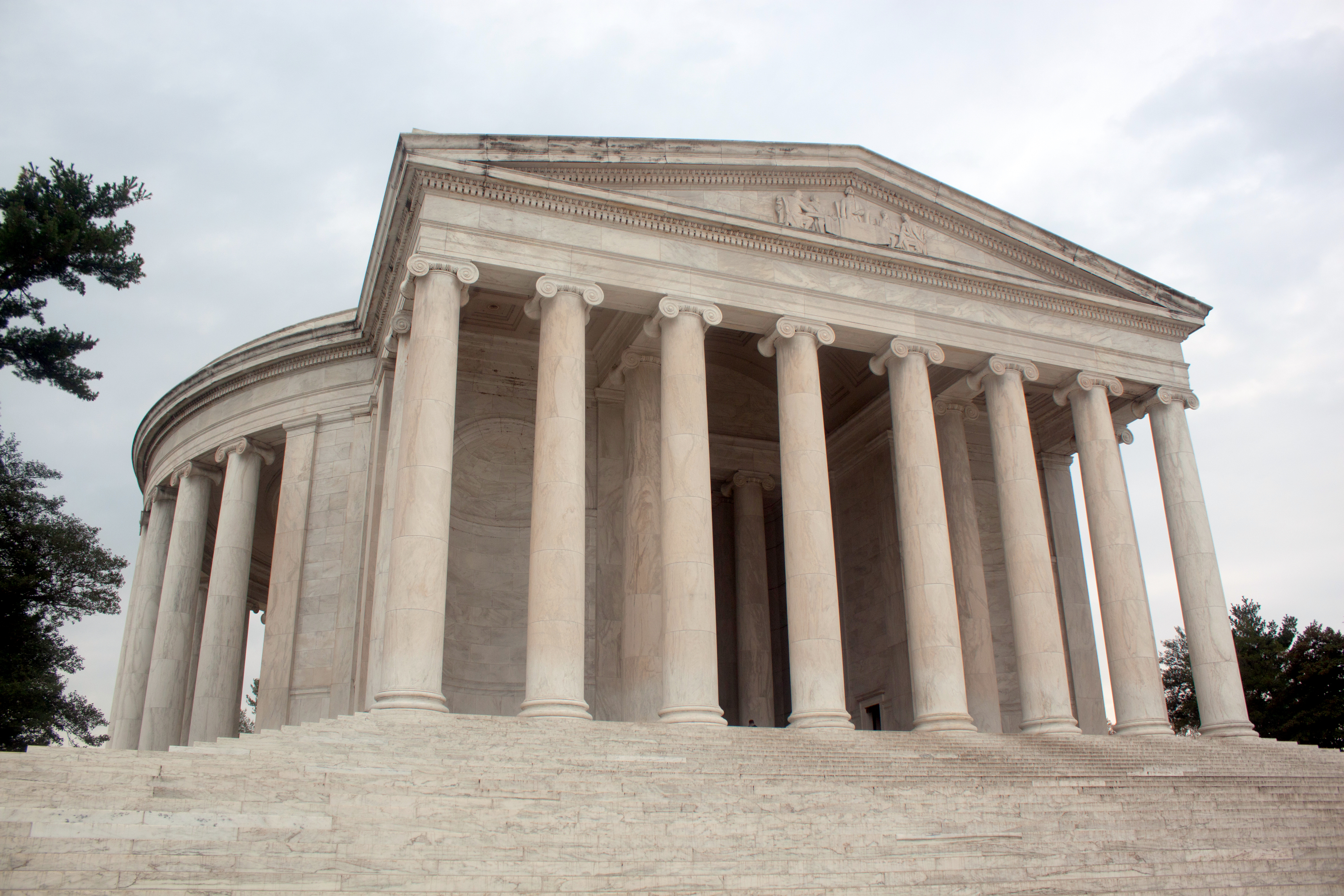 Thomas Jefferson Memorial front view